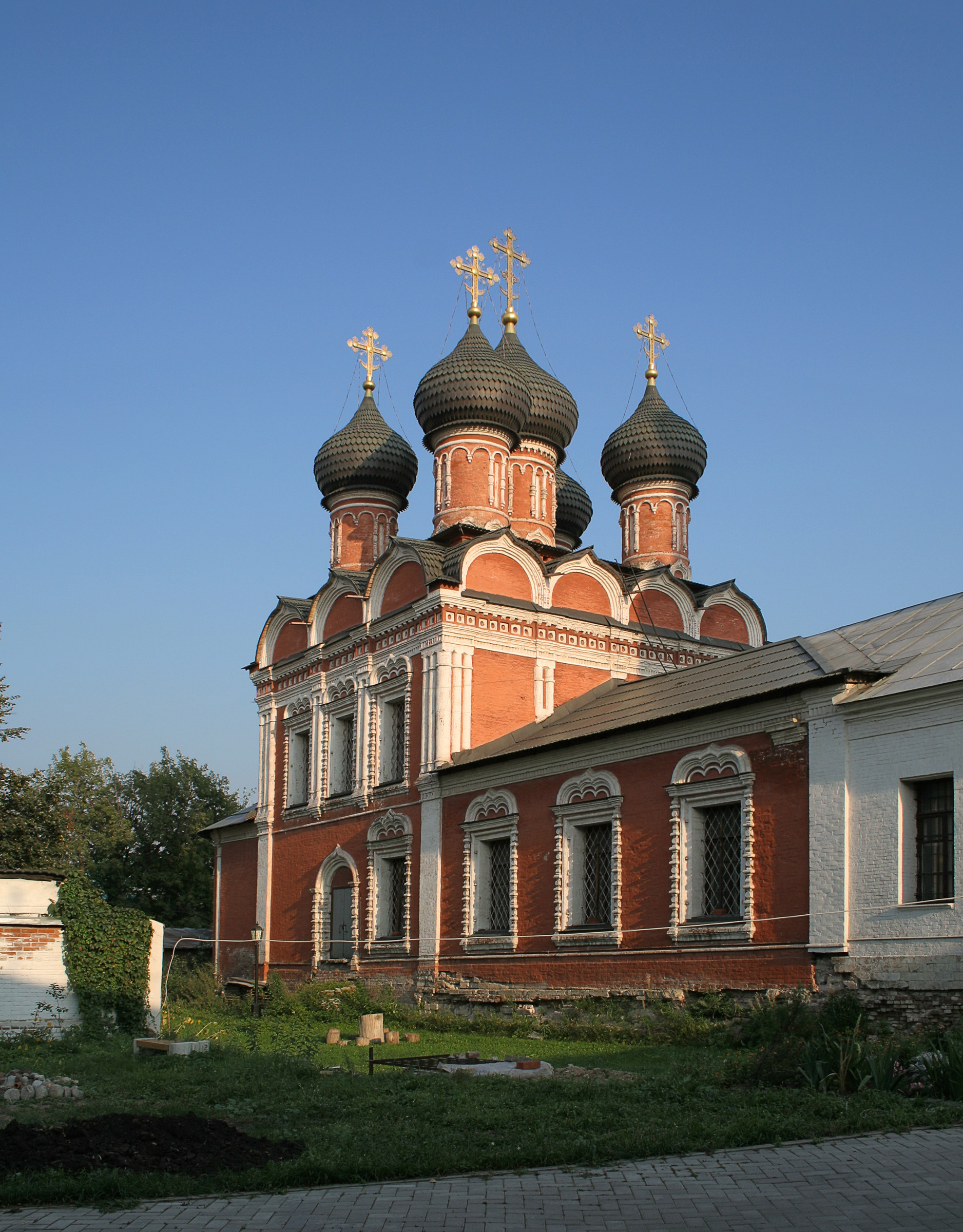 Vysokopetrovsky Monastery, Church Of Our Lady Of Bogolyubovo, 1684